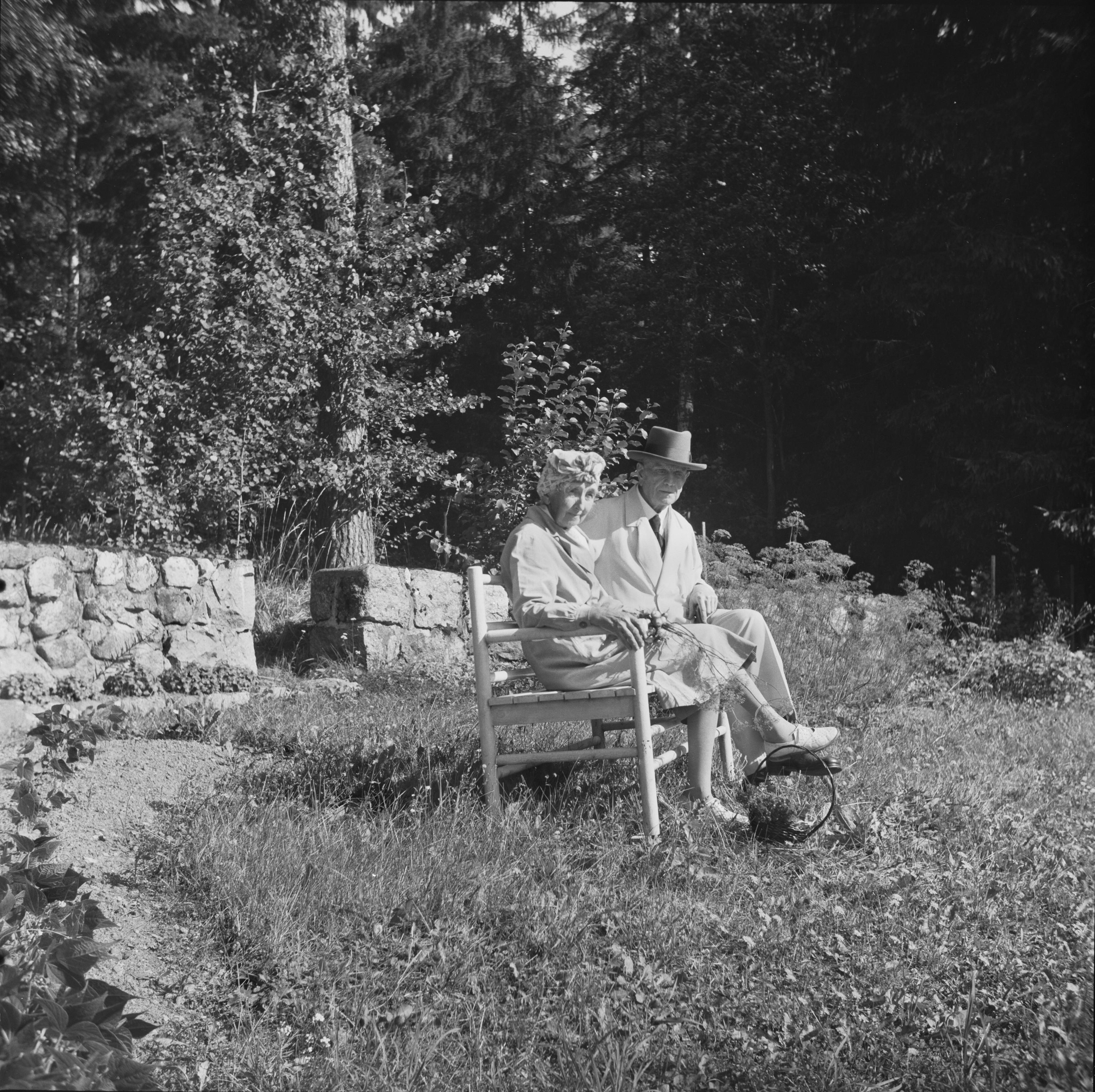 Santeri Levas: The Sibeliuses sitting on a garden bench on a summer evening, 1940-1945, Järvenpää. Digitized original negative.